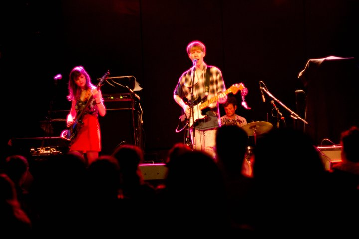 Total Slacker @ Bowery Ballroom (taken on my cell phone)